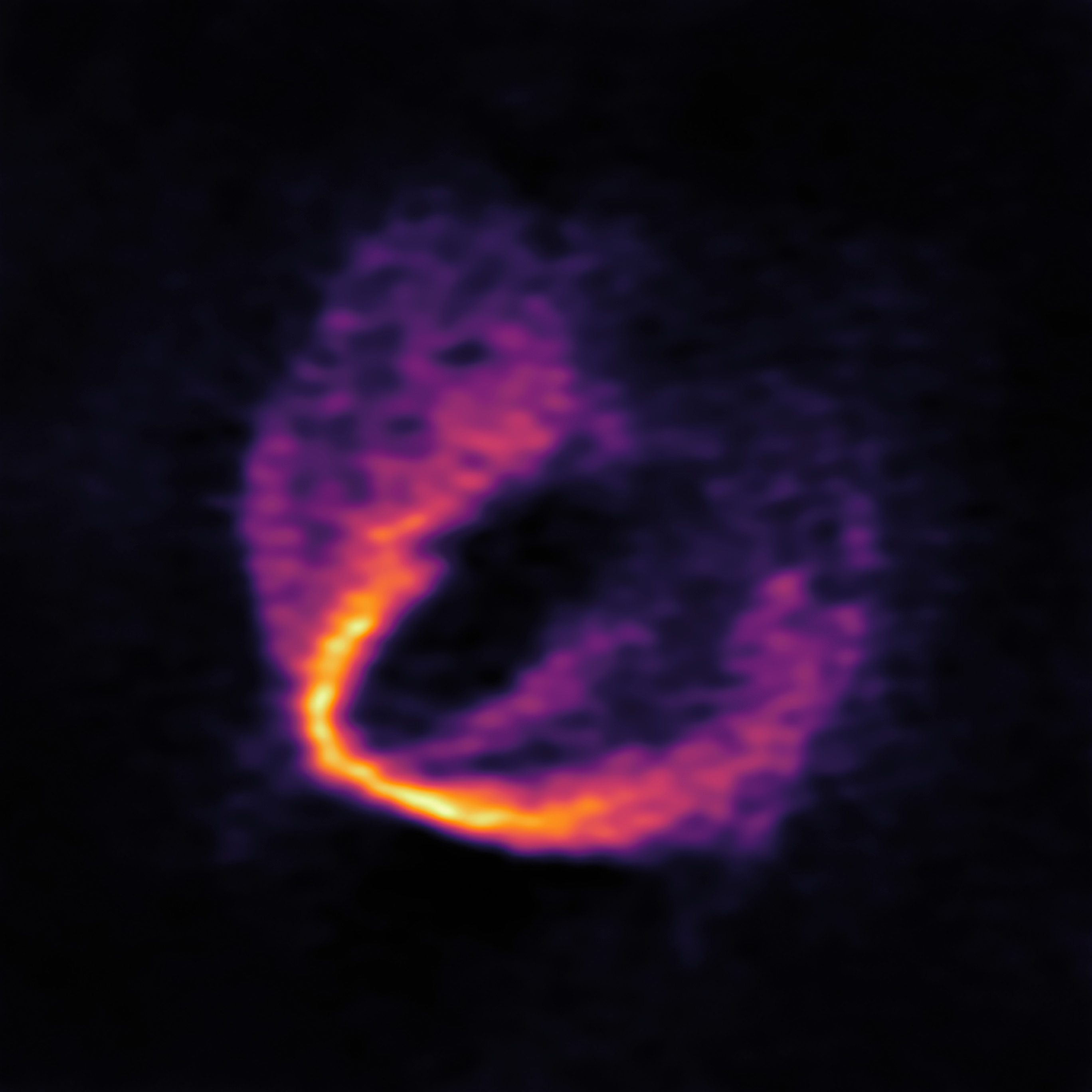 ALMA has uncovered convincing evidence that three young planets are in orbit around the infant star HD 163296. Using a novel planet-finding technique, astronomers have identified three discrete disturbances in the young star’s gas-filled disc: the strongest evidence yet that newly formed planets are in orbit there. These are considered the first planets discovered with ALMA. This image shows part of the ALMA data set at one wavelength and reveals a clear “kink” in the material, which indicates unambiguously the presence of one of the planets.